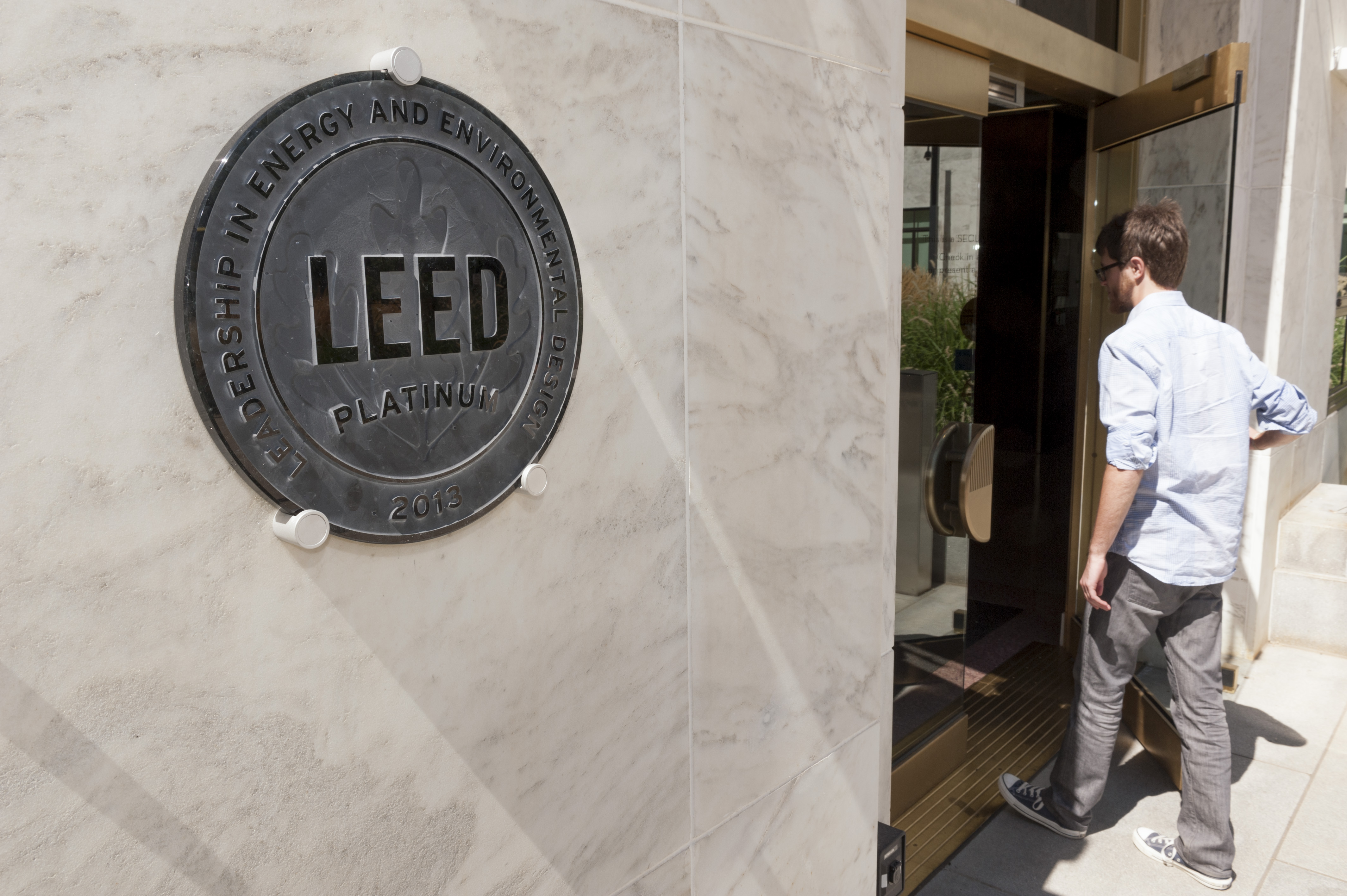 The Oregon Department of Transportation's headquarters building in Salem has received the LEED "Platinum" rating – the highest level – for being an environmentally-responsible and sustainable facility. The building, located on the Capitol Mall, was originally finished in 1951; few updates were made over the years, and in 2010, the building closed for a nearly two-year rehabilitation. The refurbished, historic facility re-opened in August 2012 – offering a healthier atmosphere for employees and visitors and a friendlier impact on the environment.